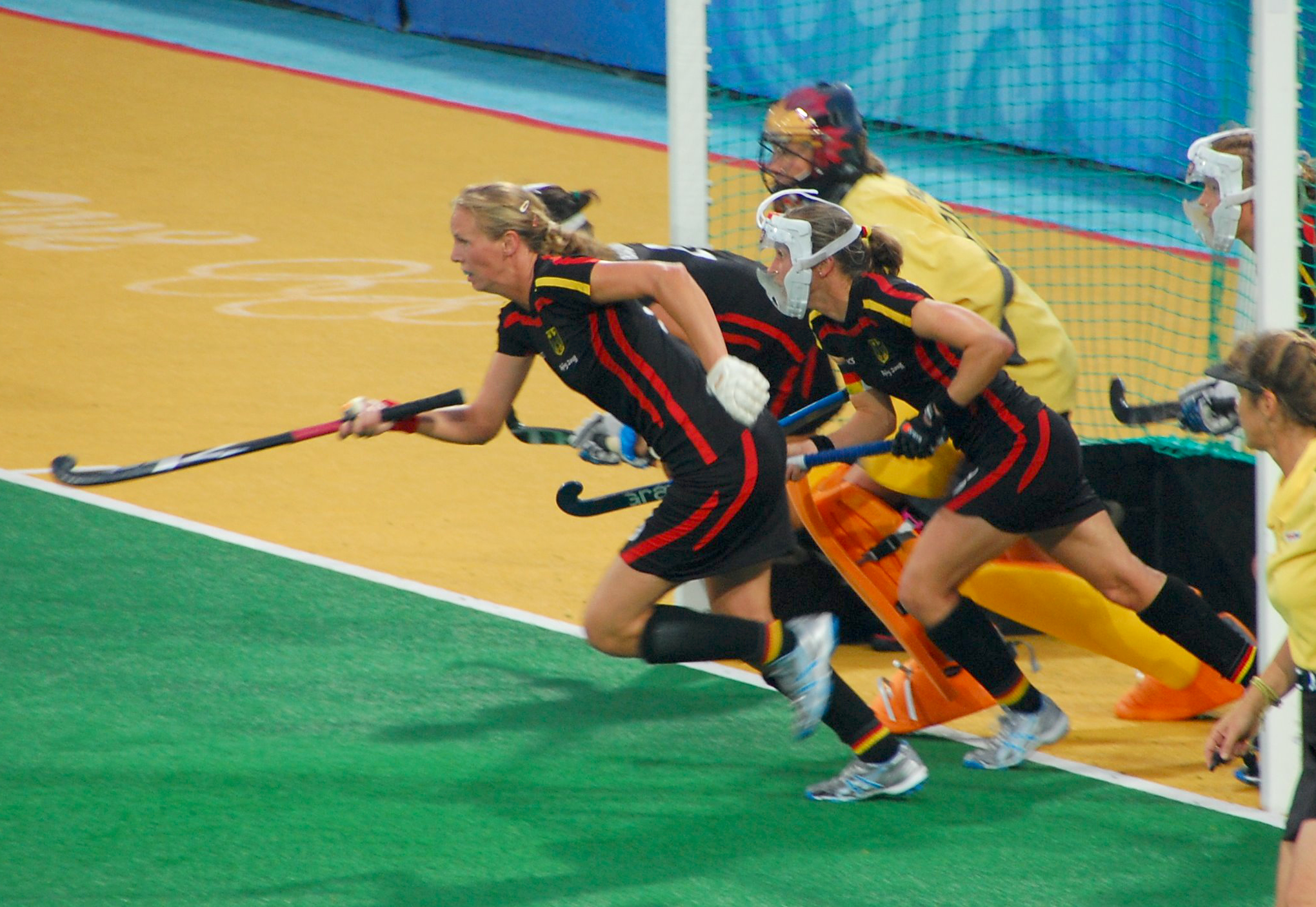 Field hockey (F) at the Beijing Olympics - Germany v. China, semi-final